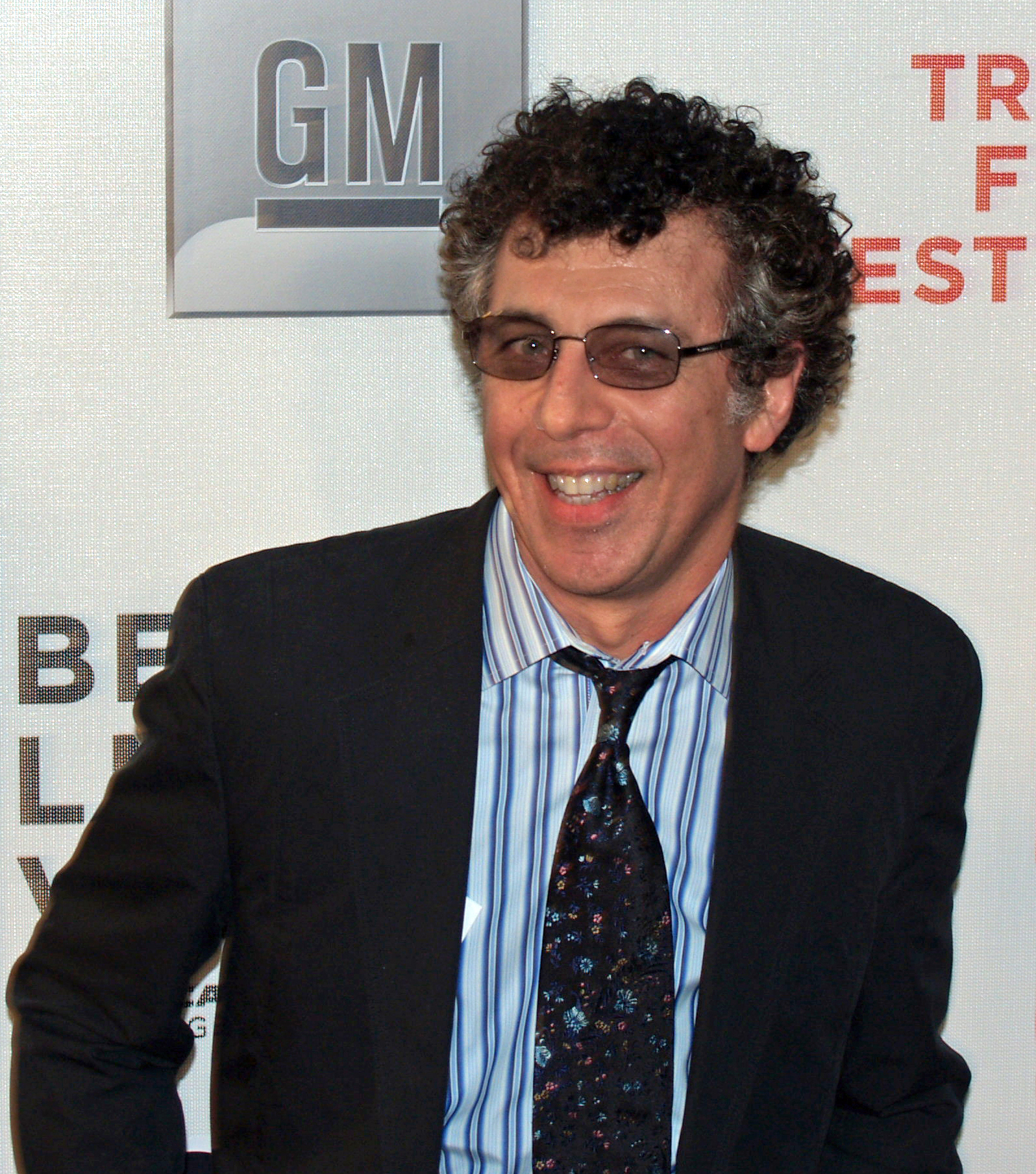 Eric Bogosian at the 2007 Tribeca Film Festival. Wikinews:Eric Bogosian on writing and the creative urge